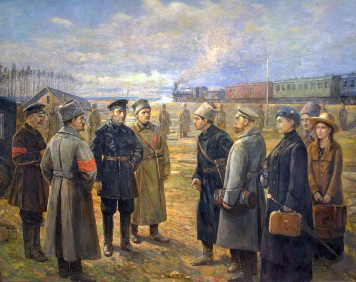 Romanov family is taken by Uralsoviet.